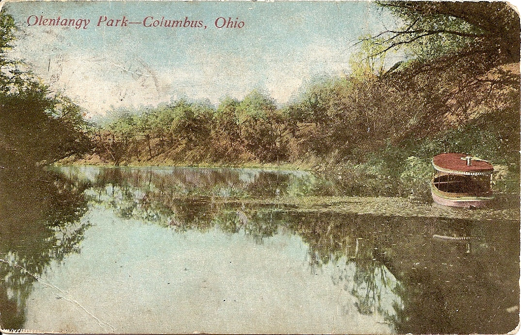 Photo of Olentangy Park in Columbus Ohio. Photo was on a postcard. Postmark is Aug 20, 1910.